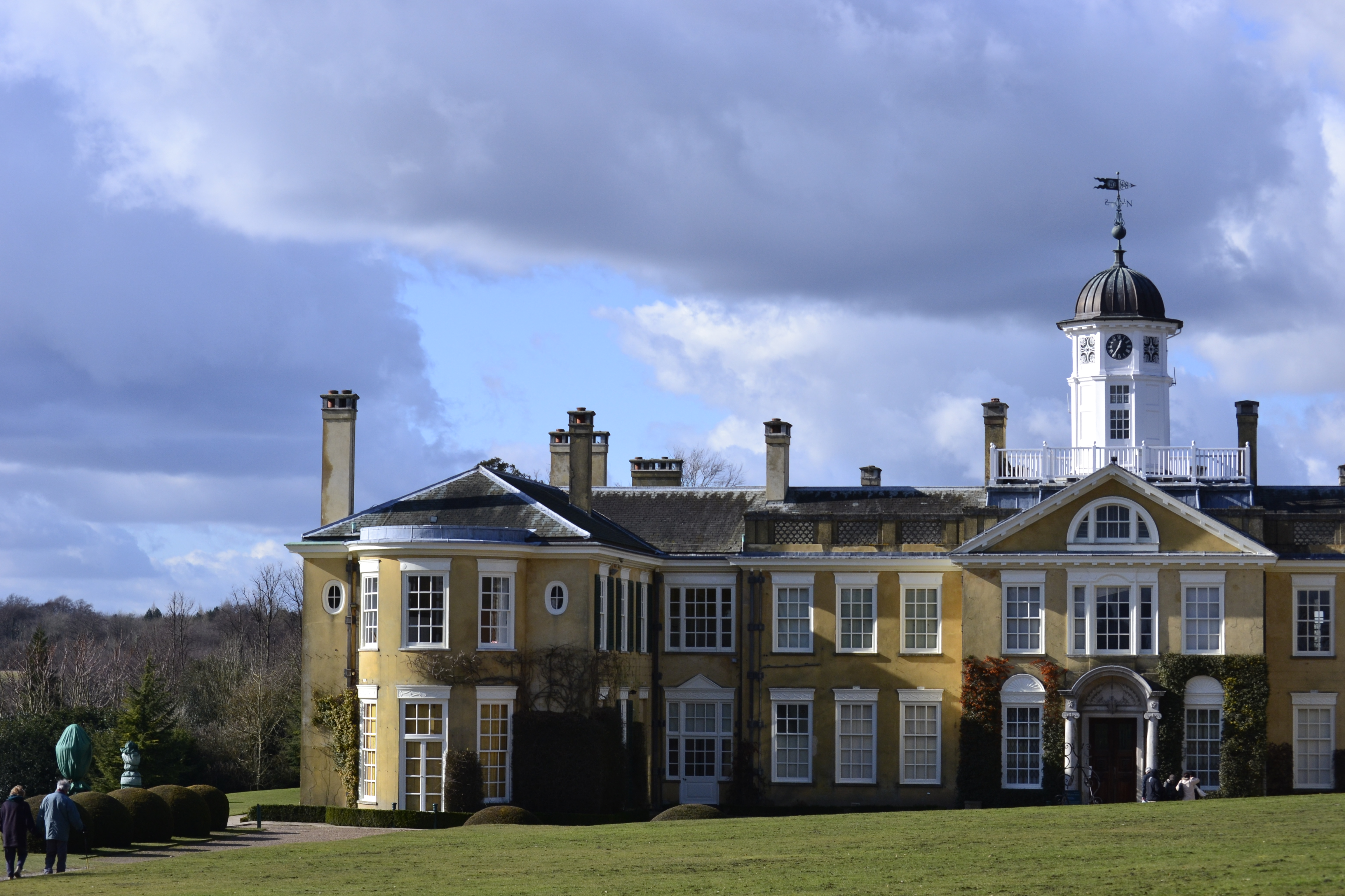 View of Polesden Lacey